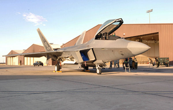 F-22 Raptor - Holloman AFB